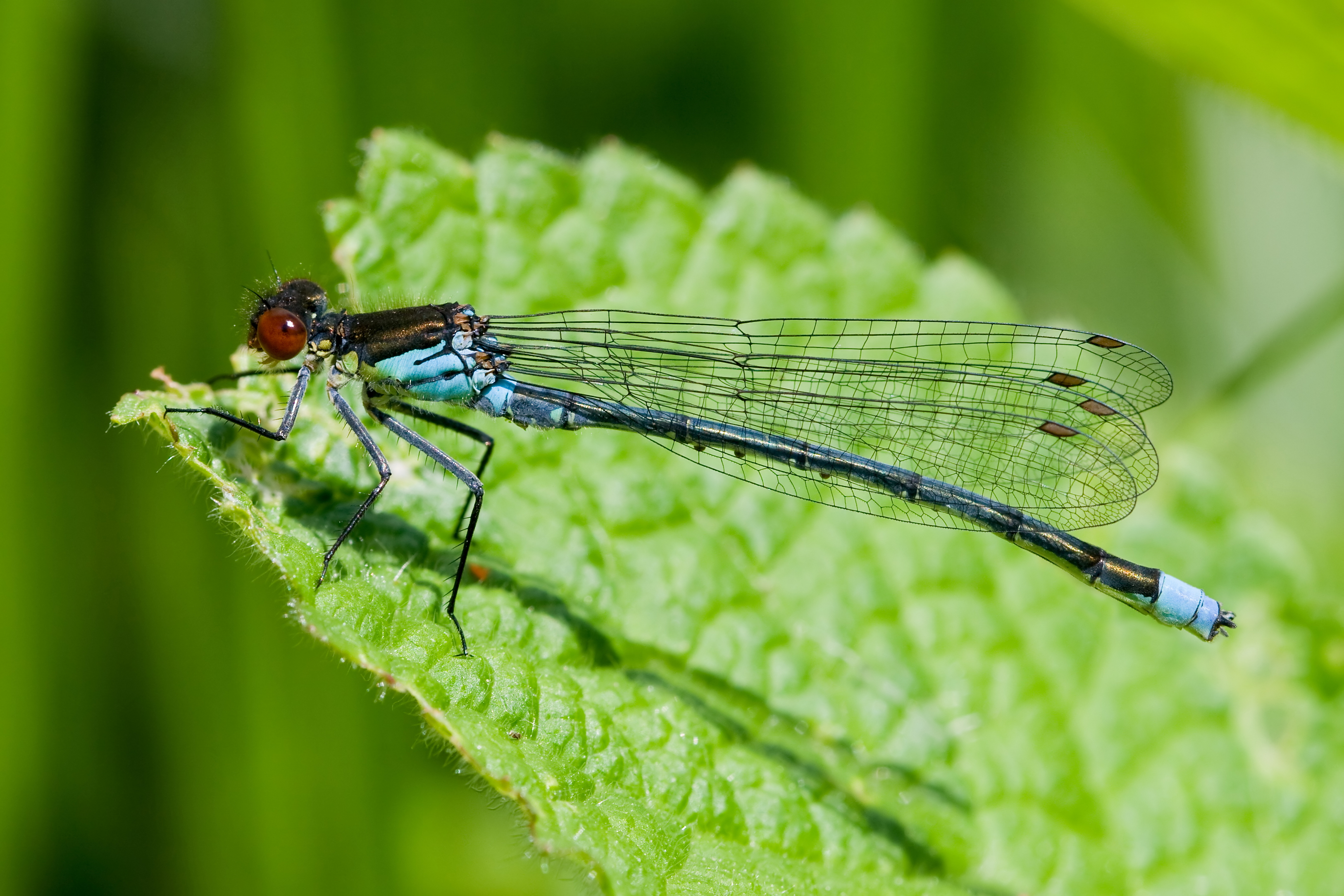 A male of the Red-eyed Damselfly (Erythromma najas) at the mirror pond, garden Neuwerk, Castle Gottorf, Schleswig, northern Schleswig-Holstein, Germany.